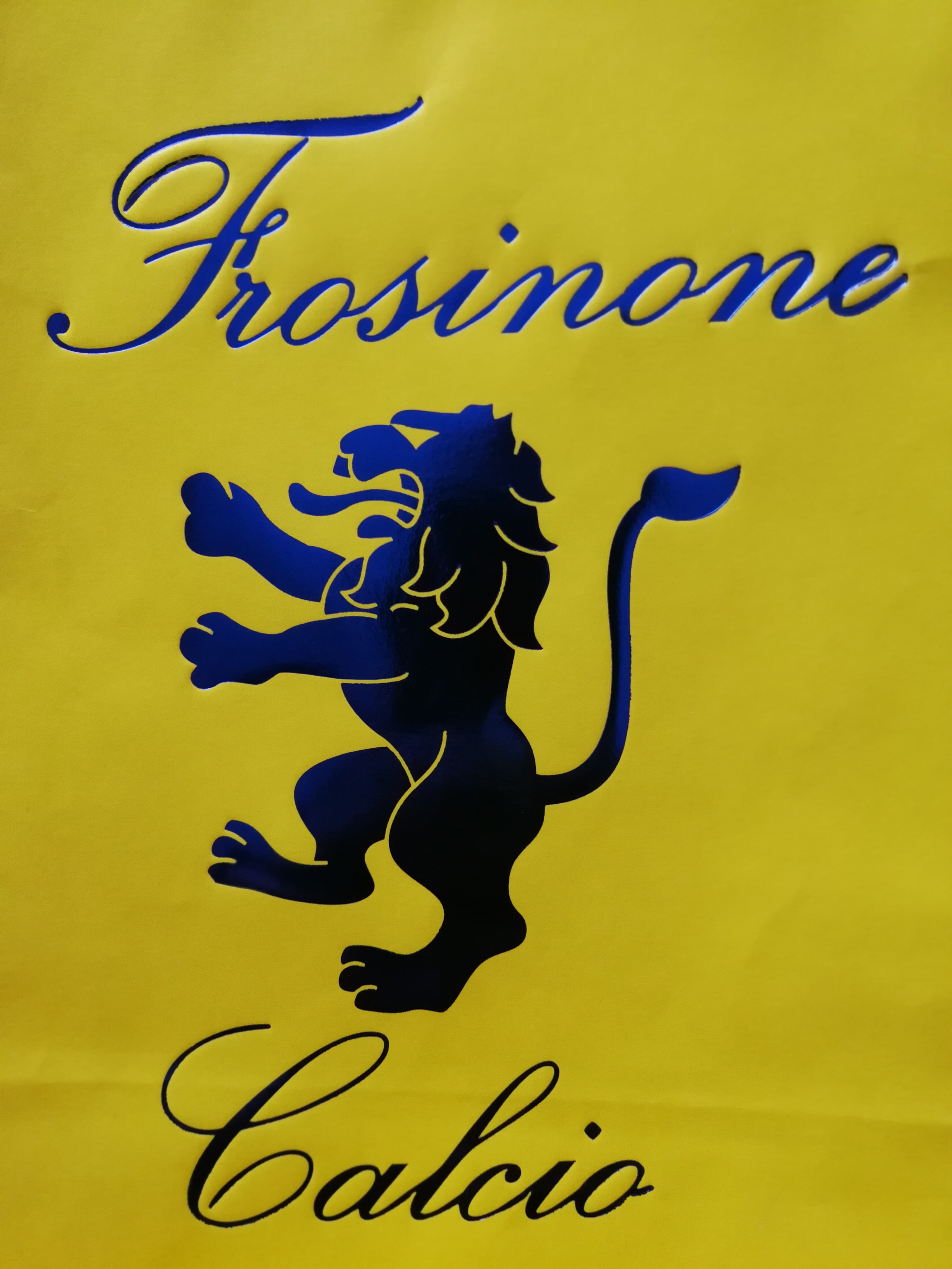 Benito Stirpe Stadium: Frosinone Calcio logo on a bag